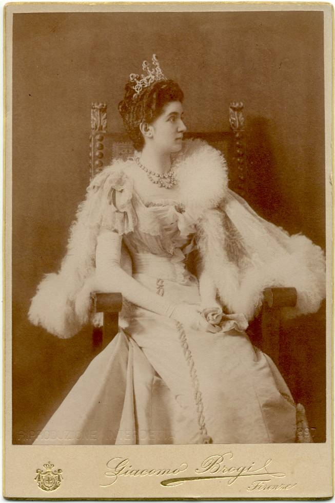 Carlo Brogi (1850-1925) - Princess Elena of Montenegro (1873-1952), wife to Victor Emmanuel III of Italy. Blind-stamped with the date: 1897